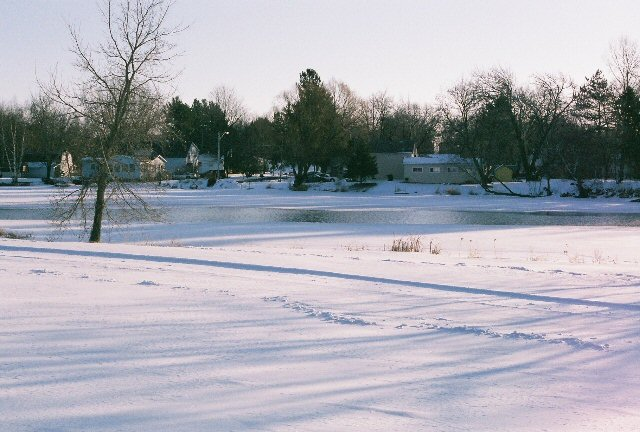 A photo of the Apple River partially frozen-over in January of 2006. Copyright (C)2006, Lyle Putnam